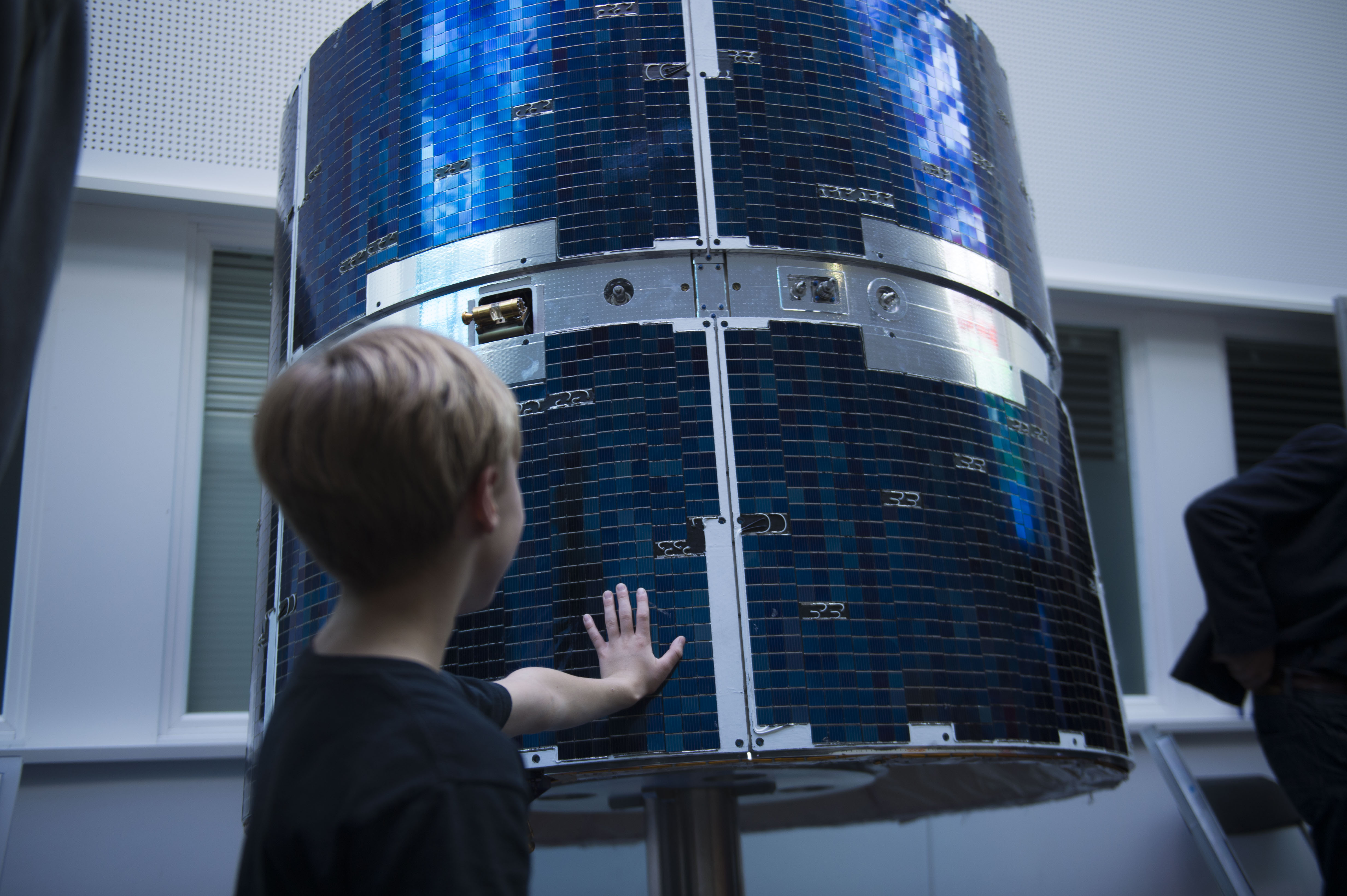 A historic engineering model of COS-B, the first satellite to be launched under the new-born ESA back in 1975, being touched by a young space enthusiast during the Sunday 4 October 2015 ESTEC Open Day.More about CC BY-SA 3.0 IGO